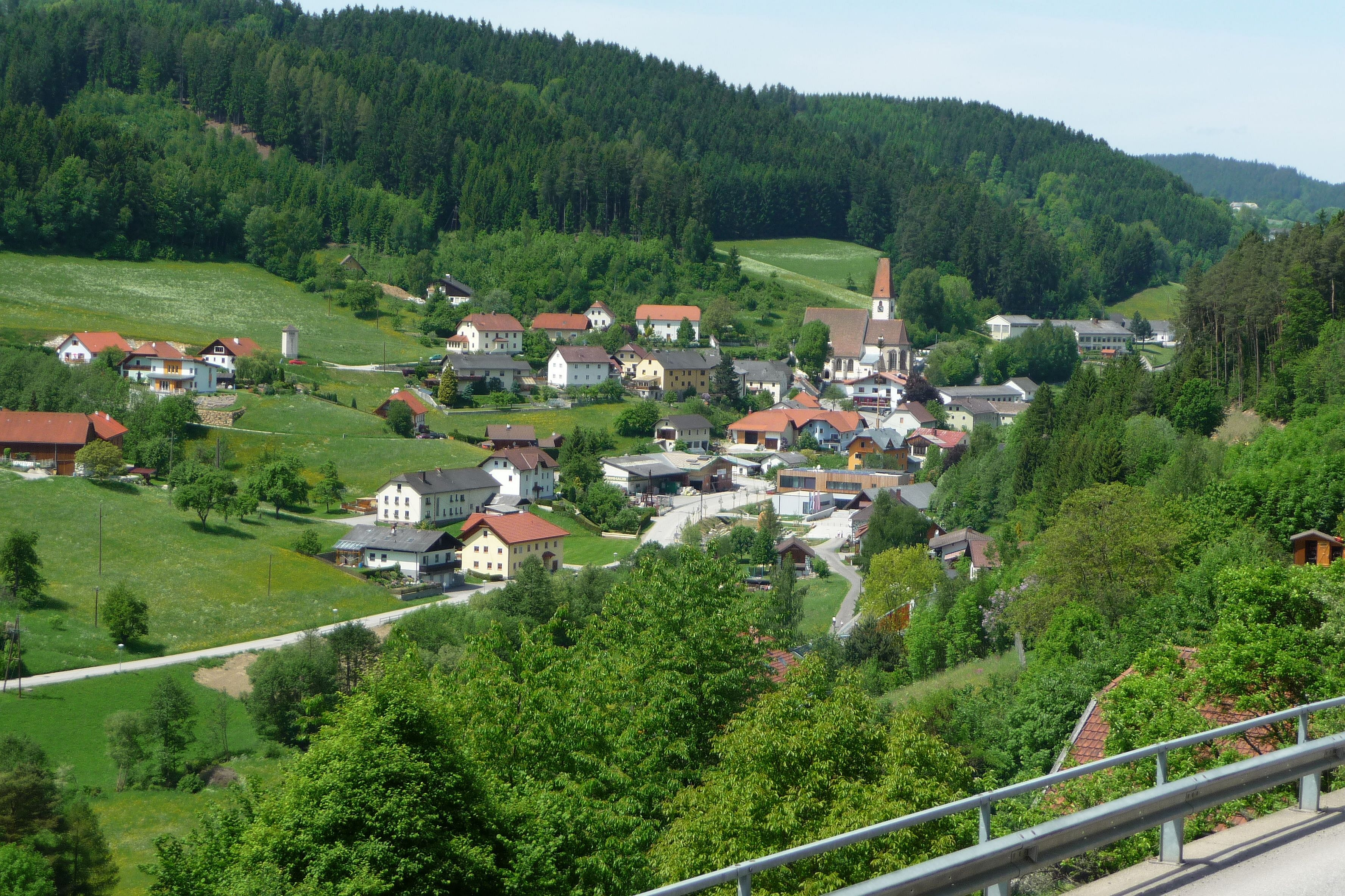 View of Hirschbach im Mühlkreis